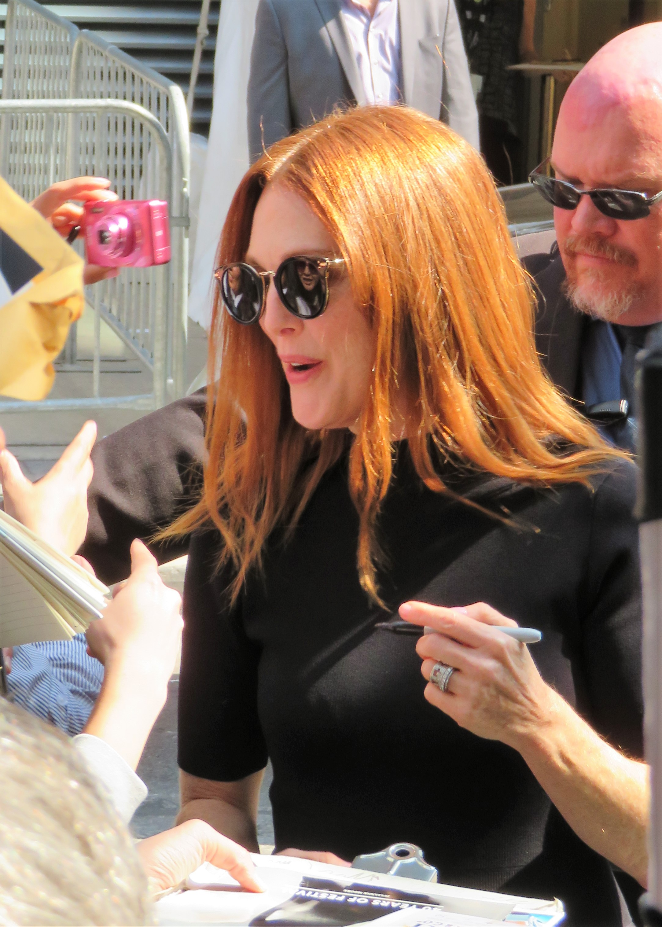 Julianne Moore at the press conference of Suburbicon, 2017 Toronto Film Festival